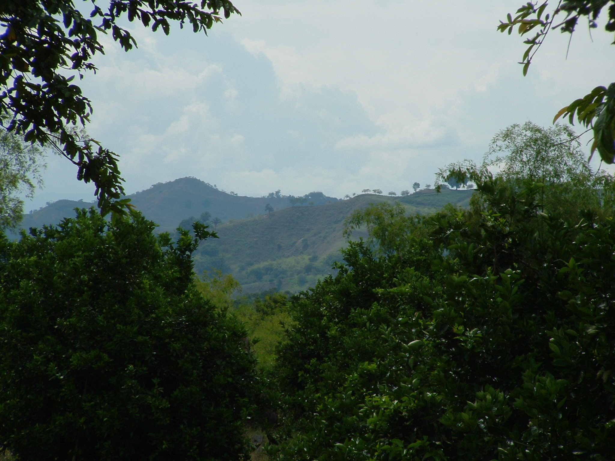 Colombian Cordillera This image shows the mountainous region around Armenia, Colombia, one of the world's prime coffee growing areas. Photo taken by poster (dtaw2001) and released to public domain.